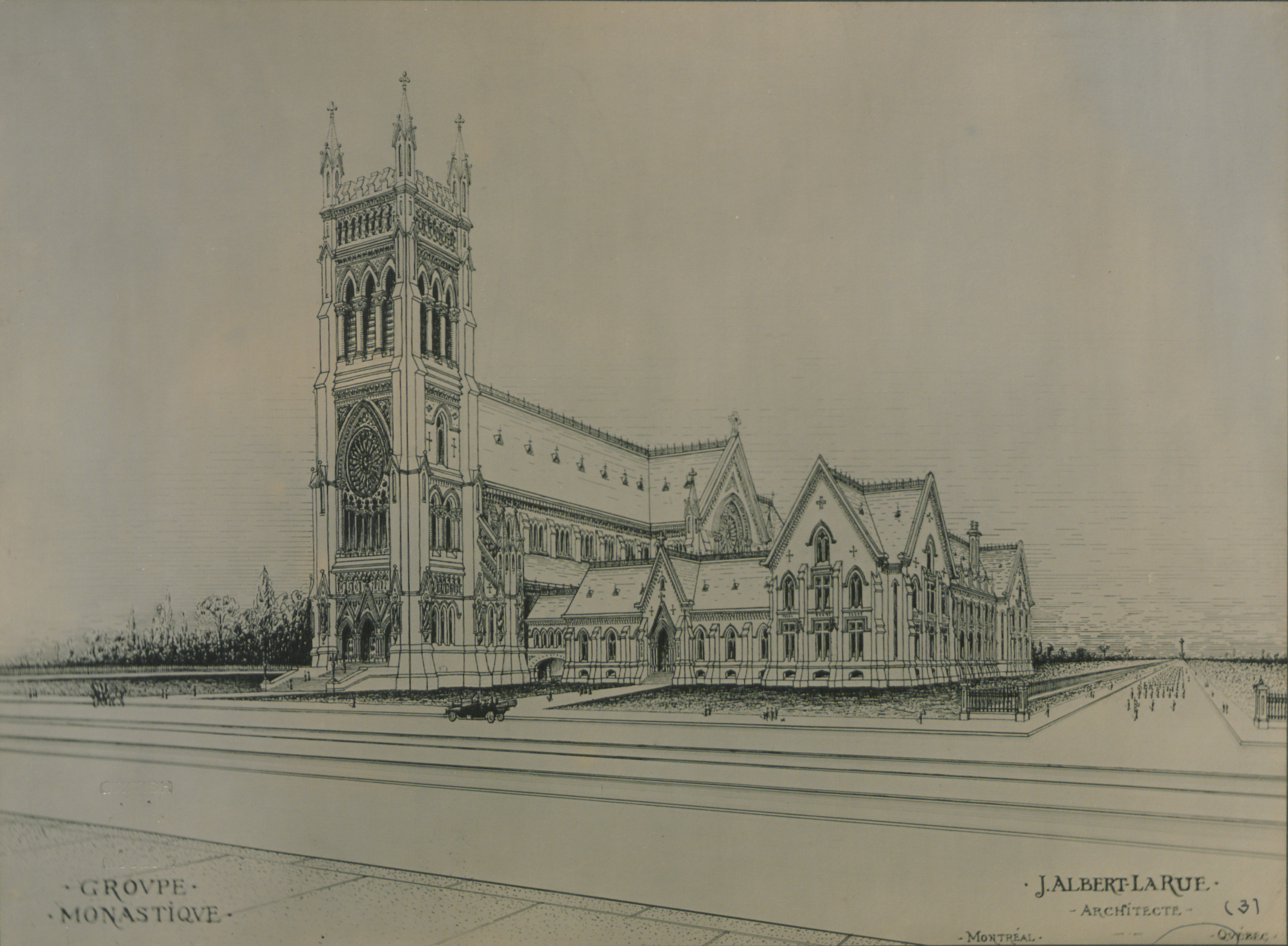 Original caption: “Group monastique.”